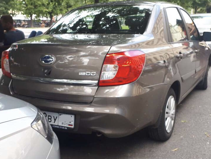 This is a Datsun On-Do spotted in Prague. This car is from Russia the owner of this is probably coming for a trip since the time when Czech or Czechoslovakia (at that time) was part of the Soviet Union (USSR) Russians would come here for vacation or business purposes.